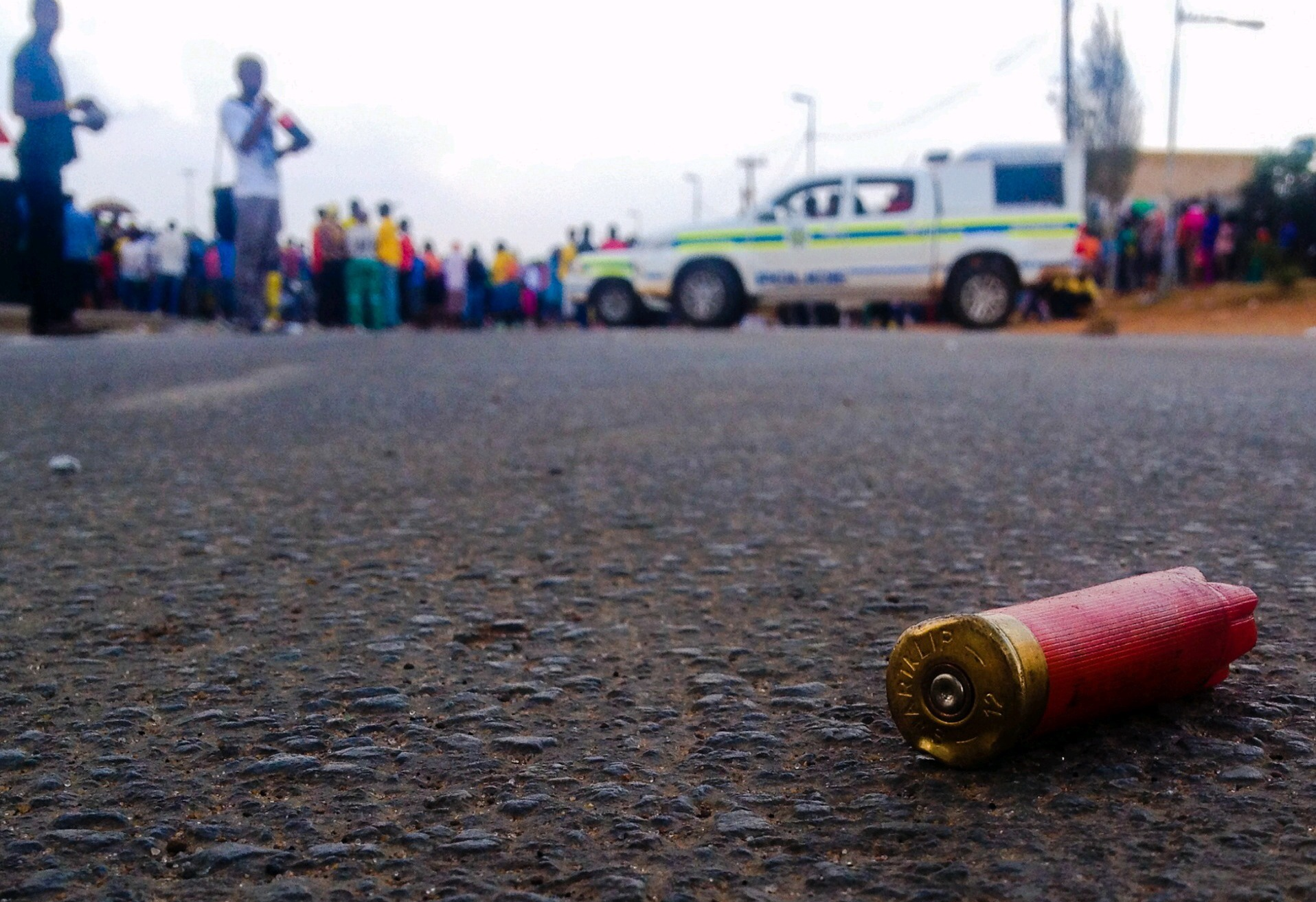 The youth of Orange Farm protesting for gain in the newly built mall. Every single person was expecting to get a job at the mall. Unfortunately the mall cannot hire the whole township.